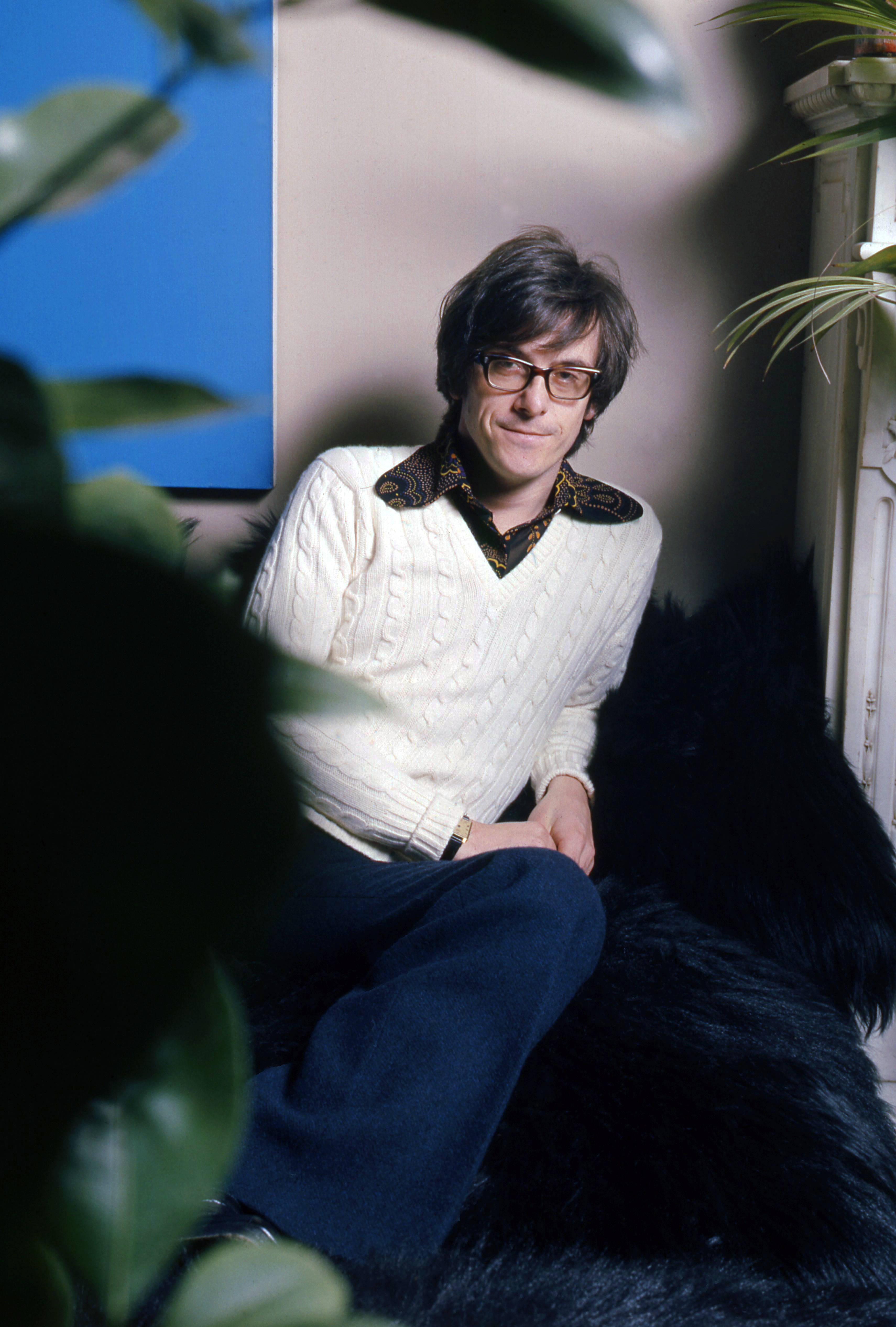 Sheridan Hamilton-Temple-Blackwood, 5th Marquess of Dufferin and Ava